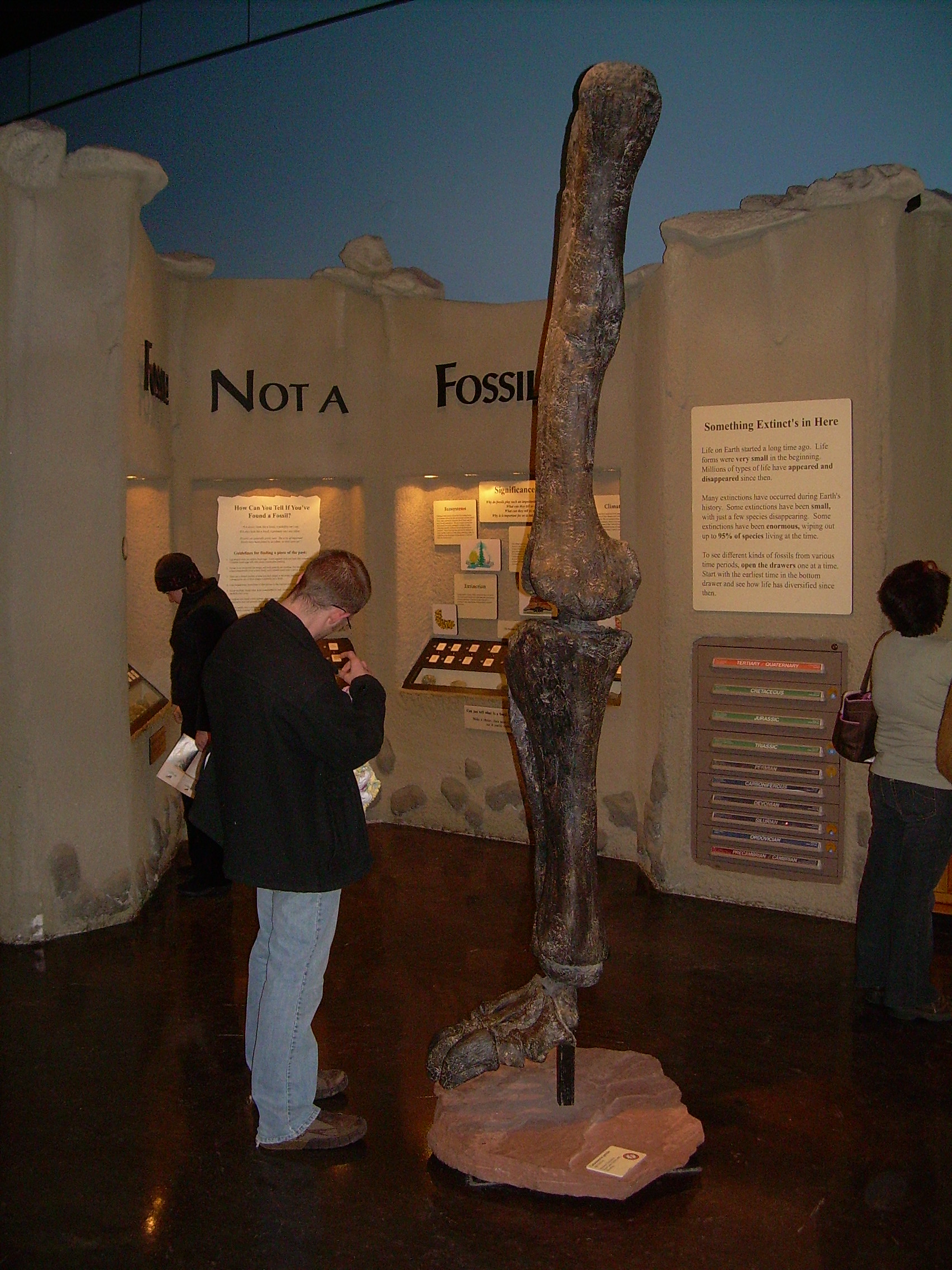 Photograph of a fossil cast of a Camarasaurus grandis leg taken at the North American Museum of Ancient Life. The fossil was originally excavated from the Morrison Formation, Bone Cabin Quarry Area, Wyoming